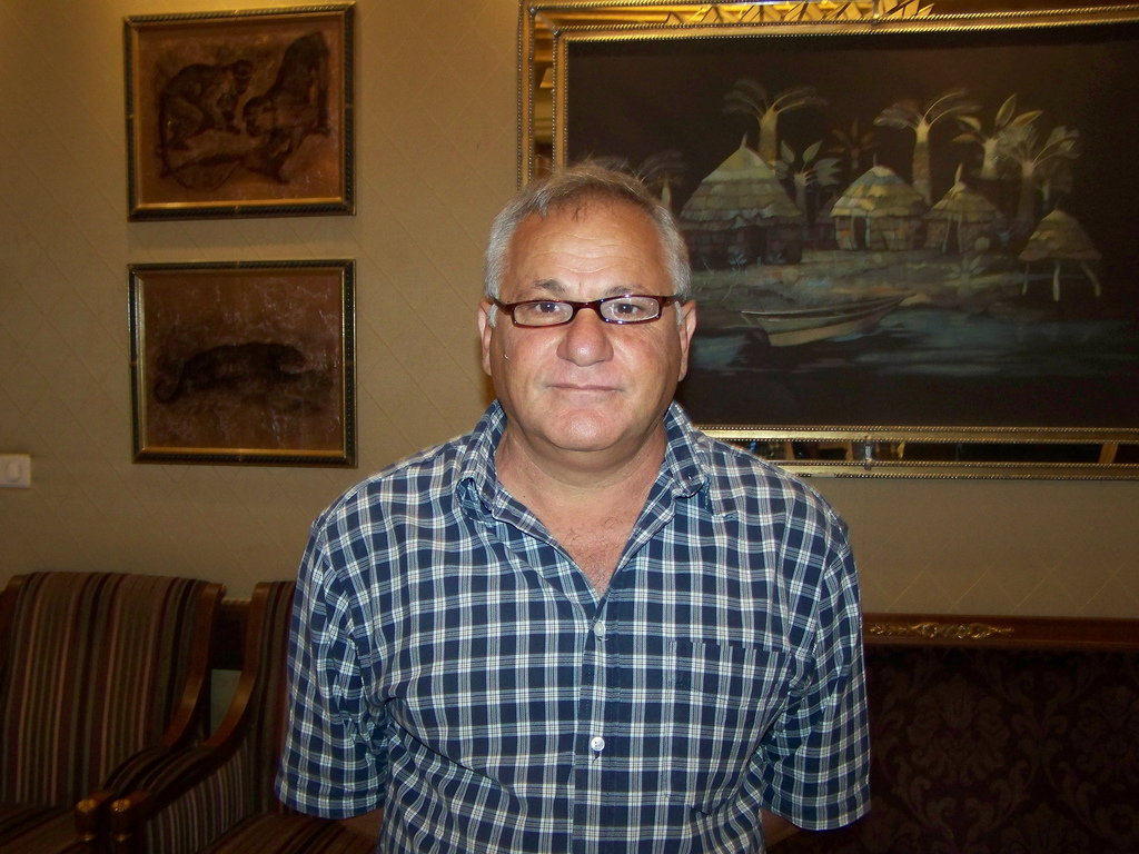 Ali Haidar, ecologist.